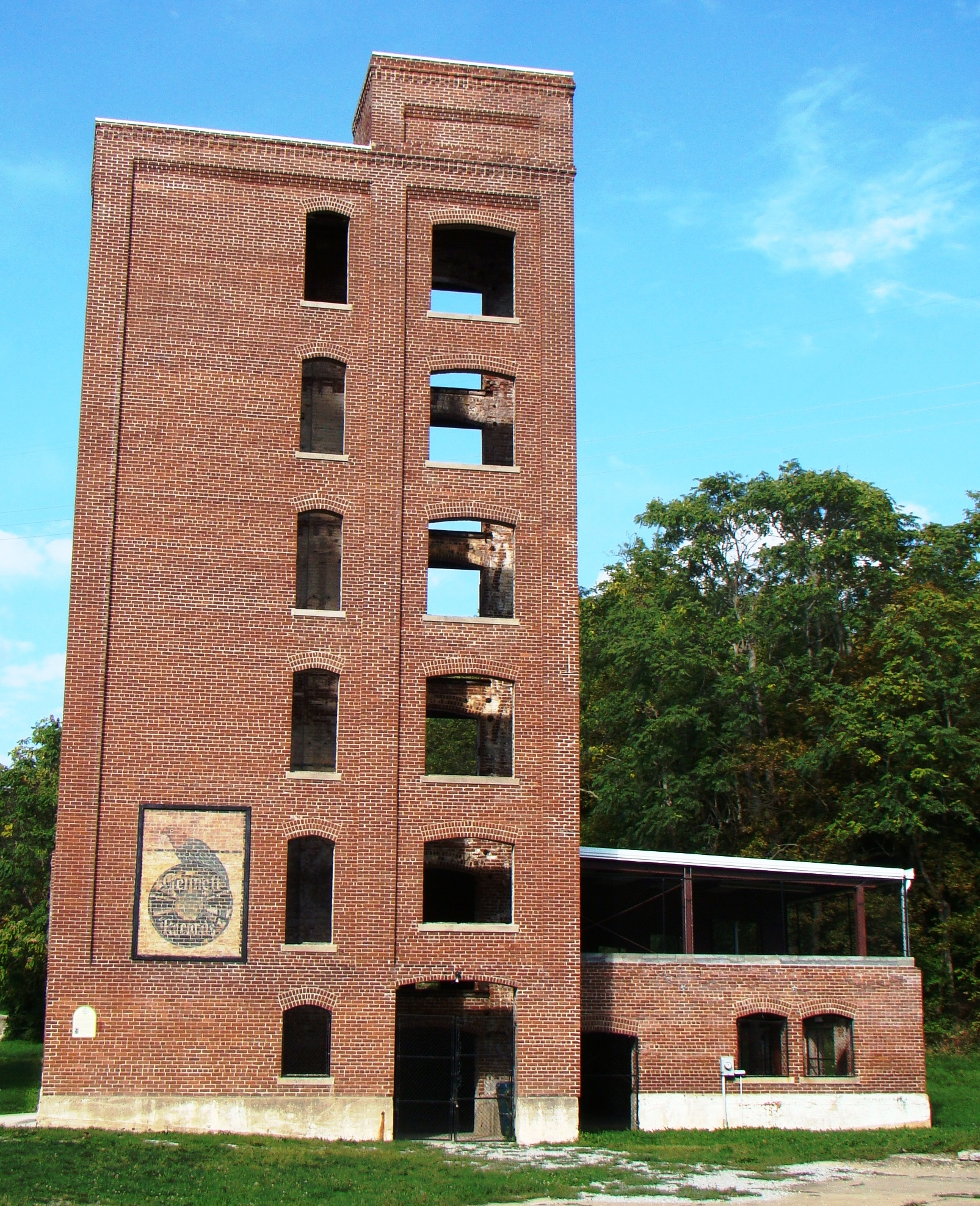 Starr Piano Company manufacturing complex: Starr Piano formed Gennett Records, housing a small studio in an outbuilding.